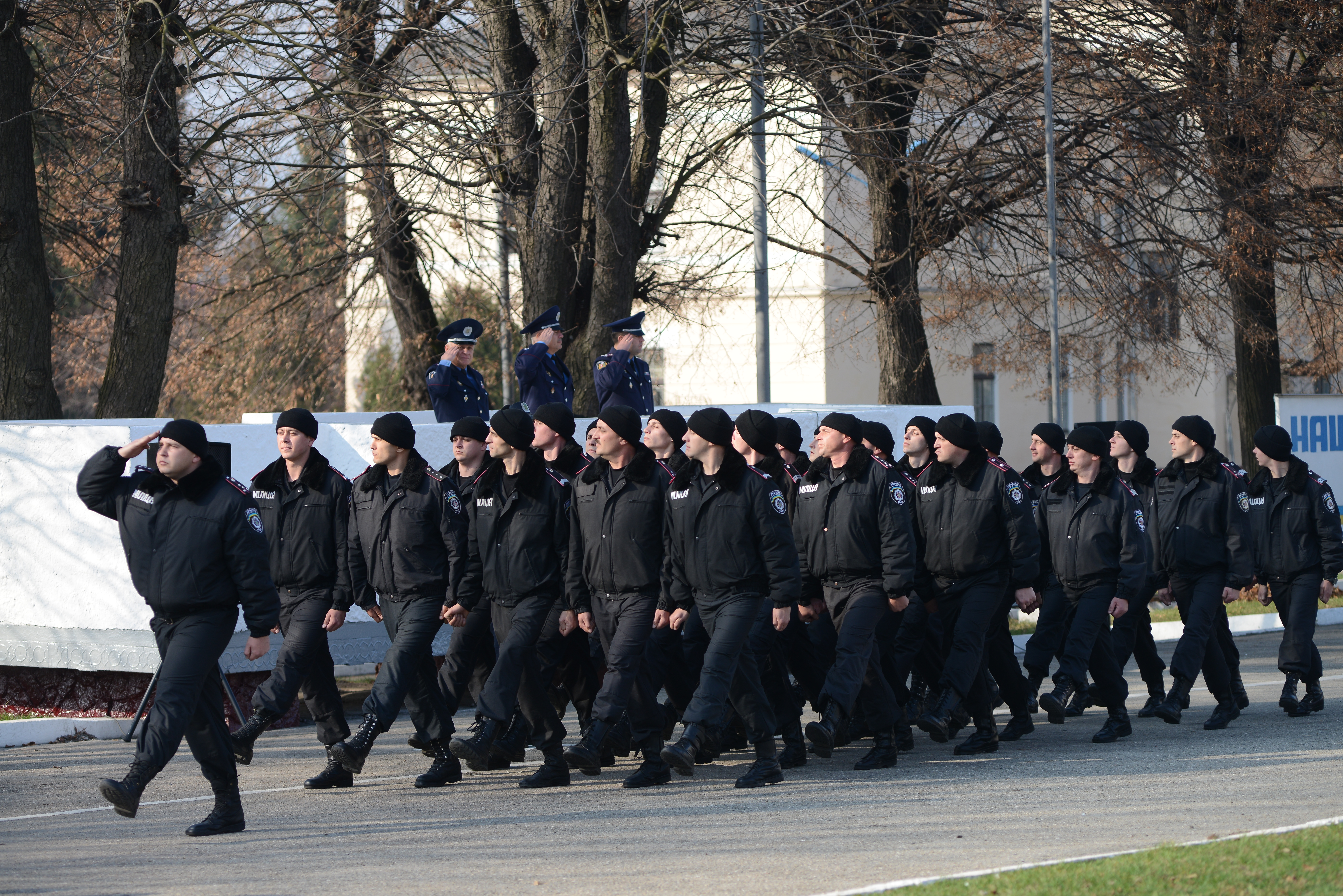 GRIFON special teem